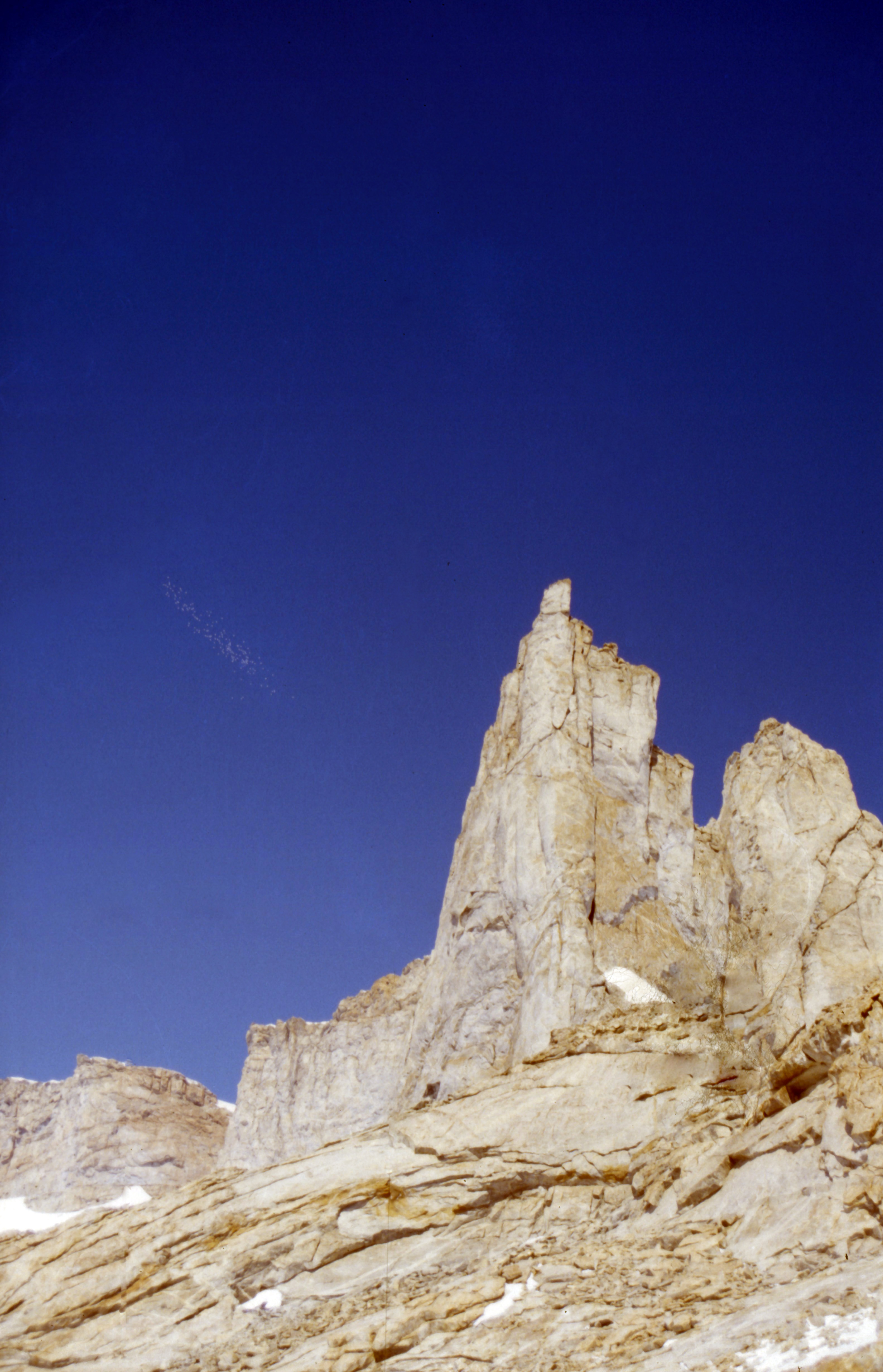 Peak of Ruhnkeberg (ger.) or Festninga (nor.) in Dronning Maud Land/Antarctica